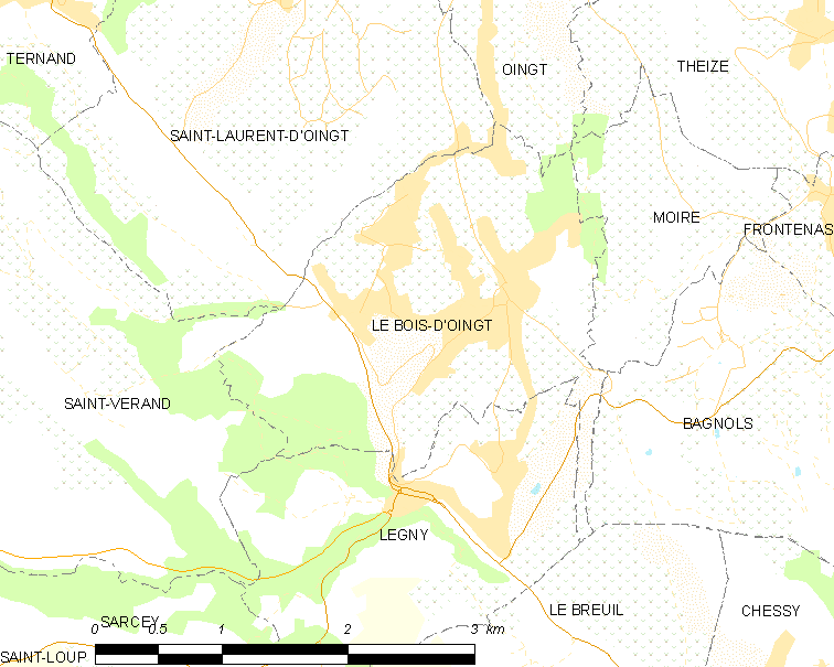 Map of French municipality